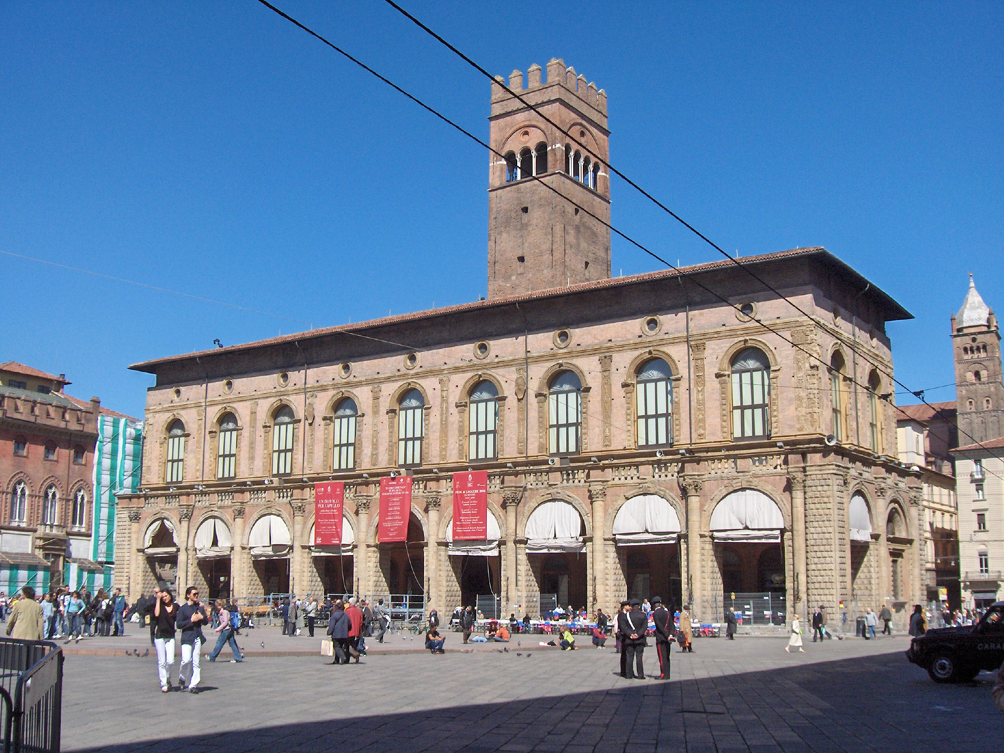 The facade of Palazzo del Podestà palace in Piazza Maggiore square in Bologna, Italy. It was projected by Aristotile Fioravanti in 1453.